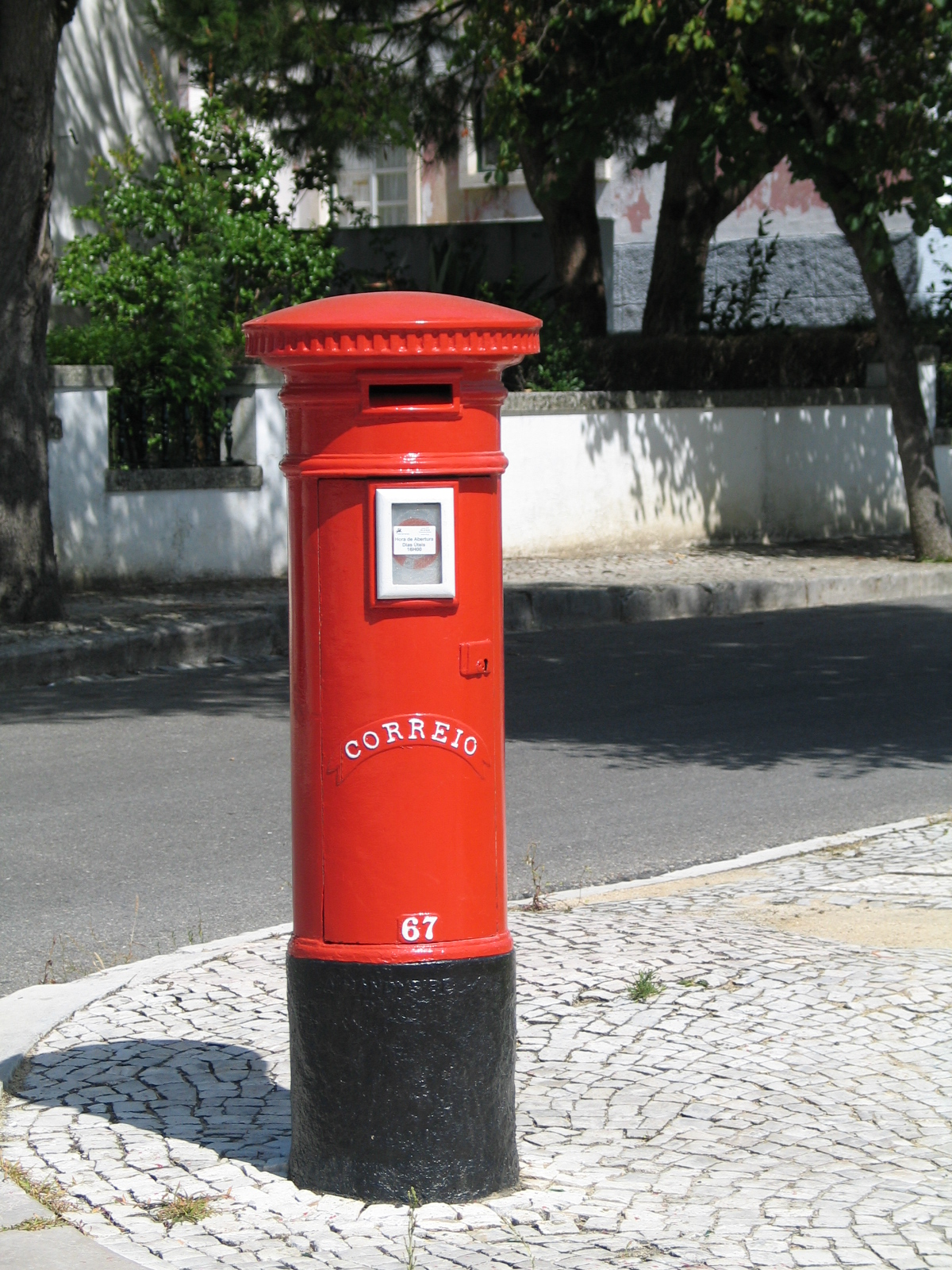 Post box of the Portuguese Post Office (CTT)